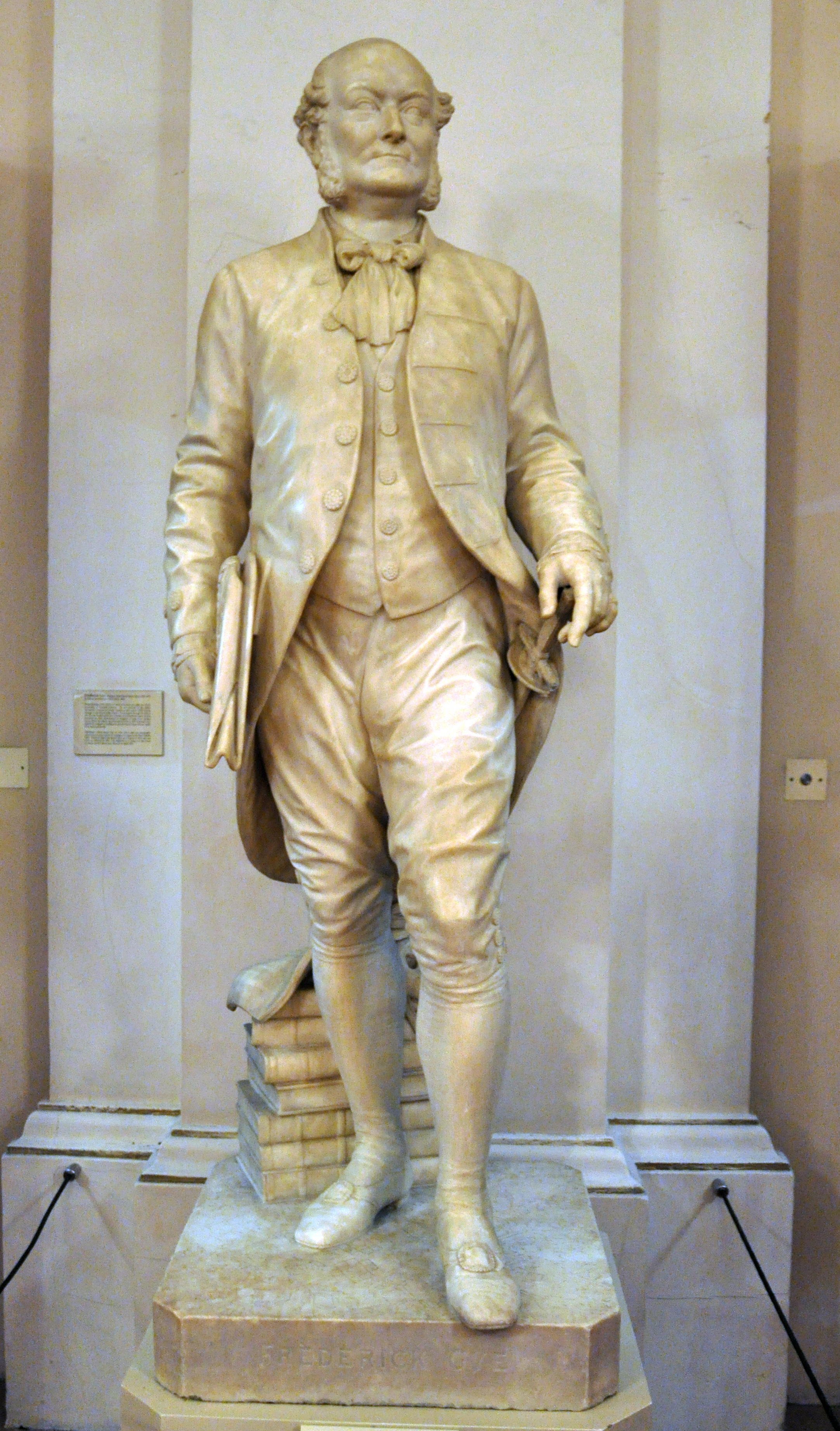 London, Royal Opera House, Covent Garden, statue of Frederick Gye (1810–1878), by Prince Victor of Hohenlohe-Langenburg (Prinz von Gleichen, 1833–1891), 1880